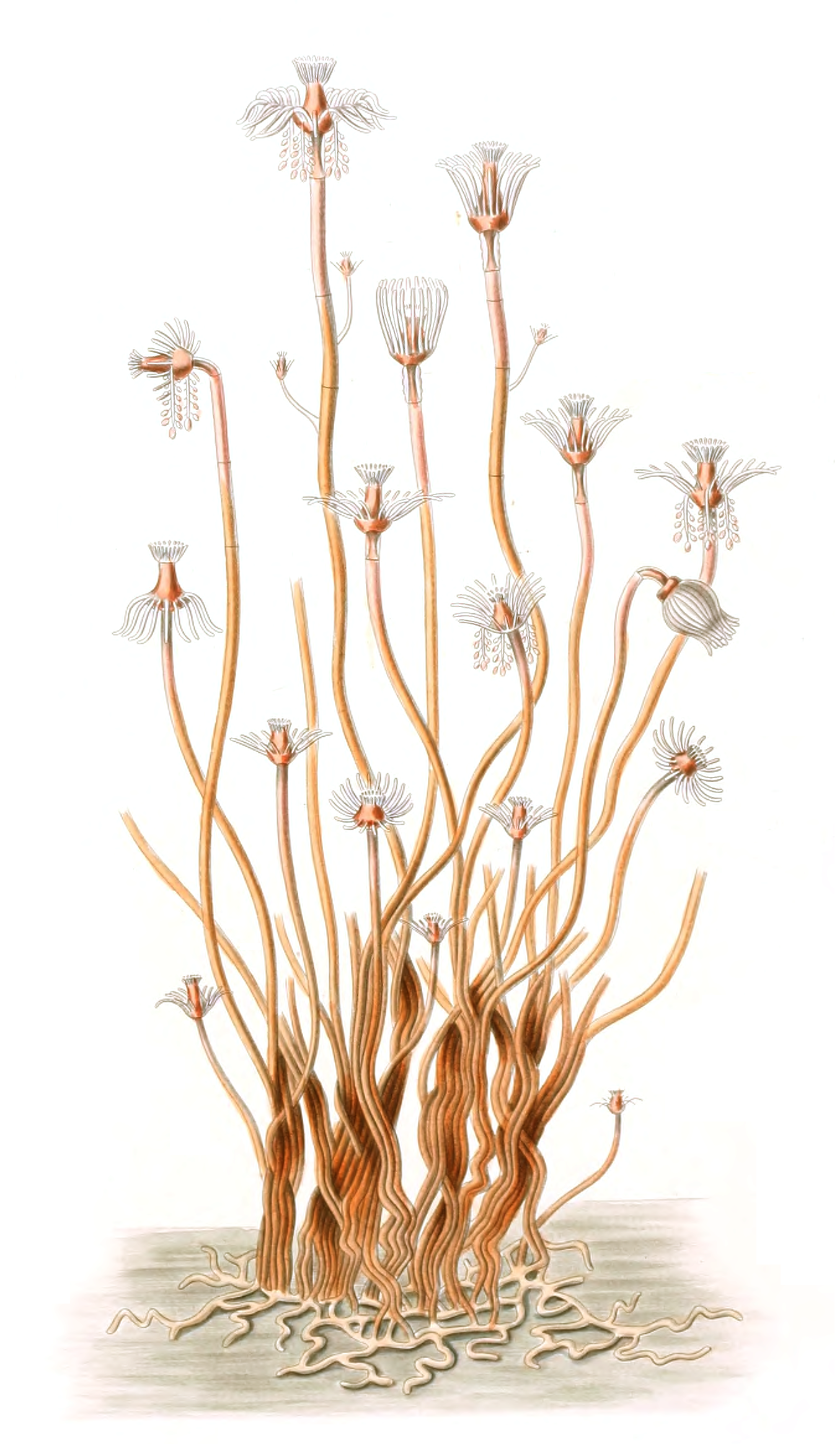 Plate XX from the Monograph of the Gymnoblastic or Tubularian Hydroids. The original description can be found here.